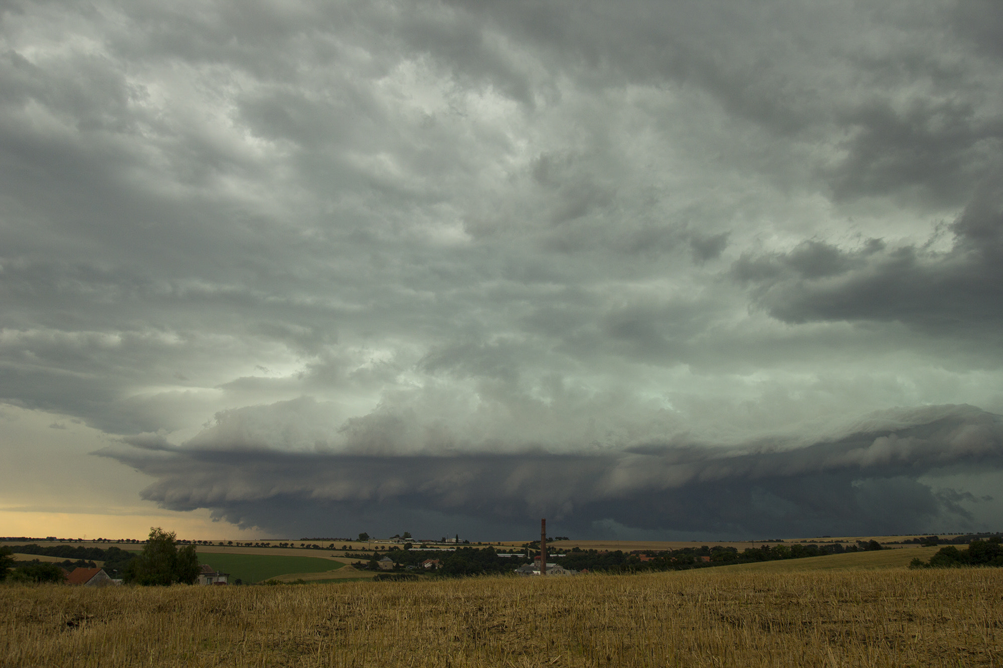 500px provided description: For me this was best structure in 2013 season. That bright turquoise color was really awesome. This MCS was classified as derecho and caused many minor damage over Czech lands (damage on roofs, fallen trees). One of other chasers, which has stage 3-5 km near my location has photo of hailstones with 3 cm in diameter :) I was on edge of whole system near Slany (Stredocesky region), I measured just 10,1 m/s on wind gust with my Windmaster, but many Czech weather stations measured wind speed over 25 m/s. [#sky ,#light ,#clouds ,#rain ,#summer ,#lightning ,#cloud ,#weather ,#storm ,#thunderstorm ,#czech ,#hail]